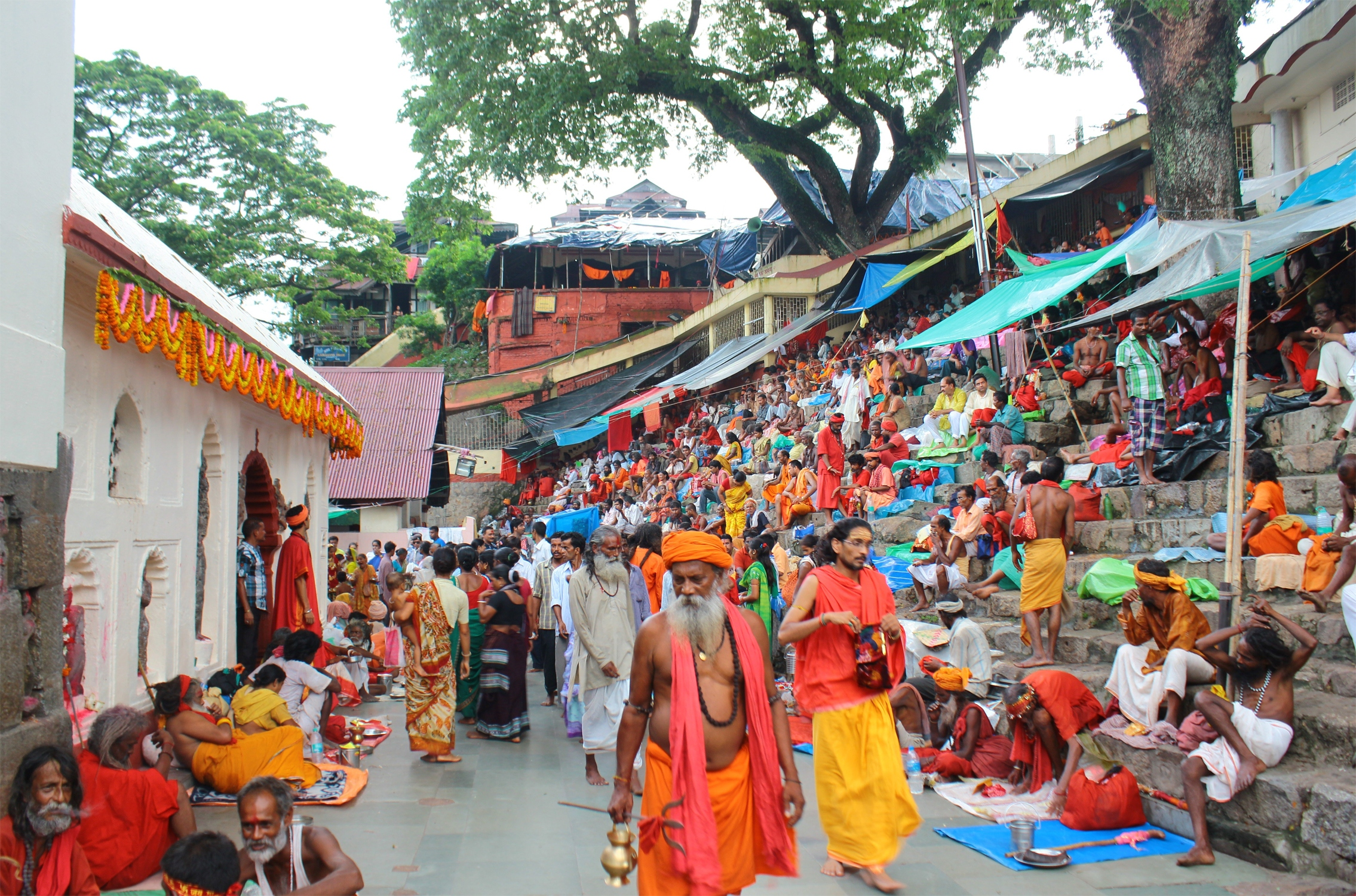 Ambubachi Mela, also known as Ambubasi festival, is held annually during monsoon in the Kamakhya Devi Temple at Guwahati, Assam. In 2010, the beginning date of Ambubachi Mela is June 22nd and the festival ends on June 26.